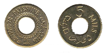 A 5 mil piece (=0.005 Palestine pound) issued by the Palestine Currency Board affiliated with the UK government for use in the British Mandate of Palestine and the Emirate of Transjordan.